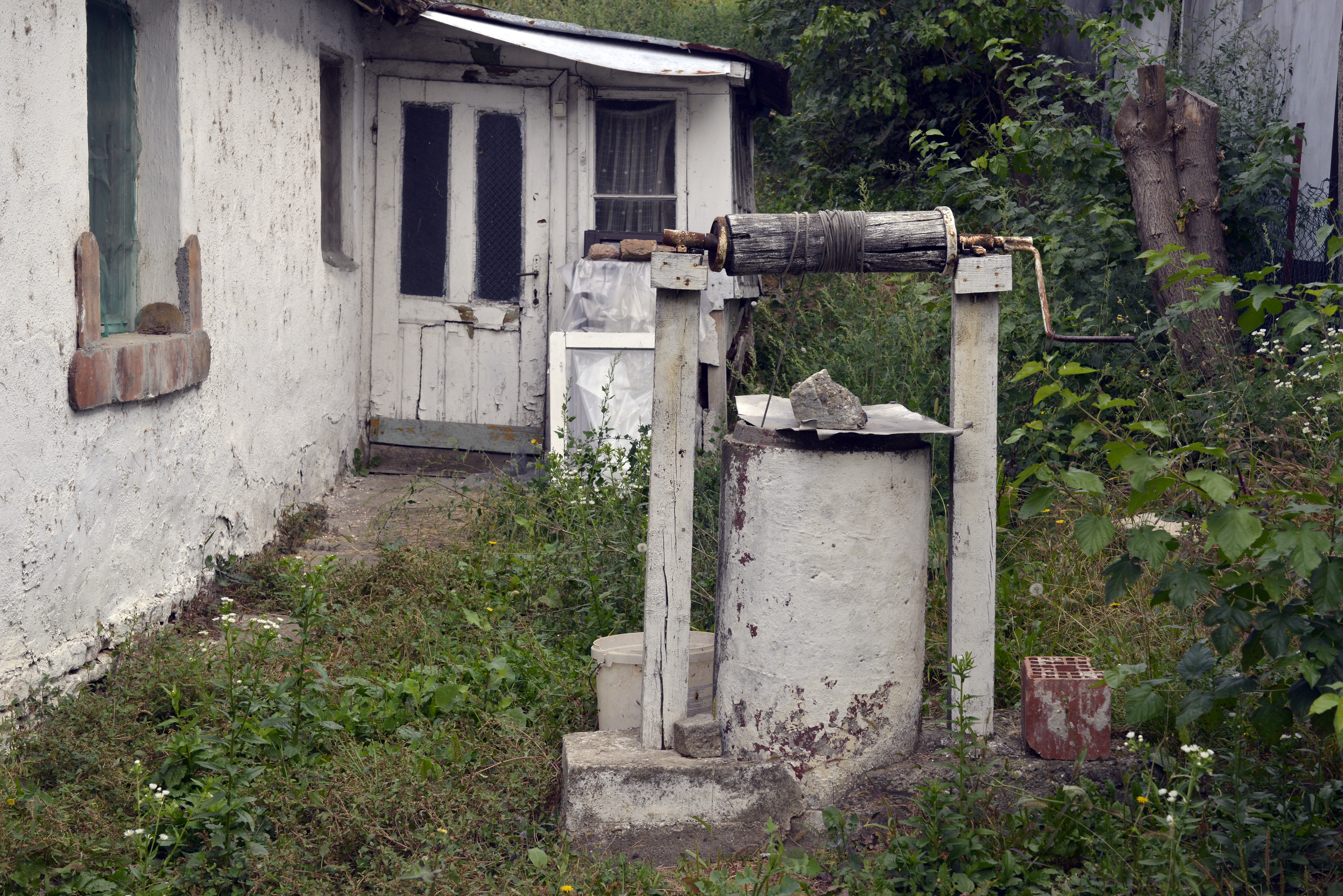 Old house near Grocka's Čaršija (Grocka, a town near Belgrade)